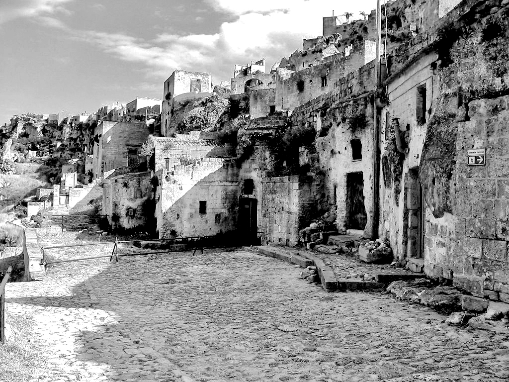 Matera (Italy).